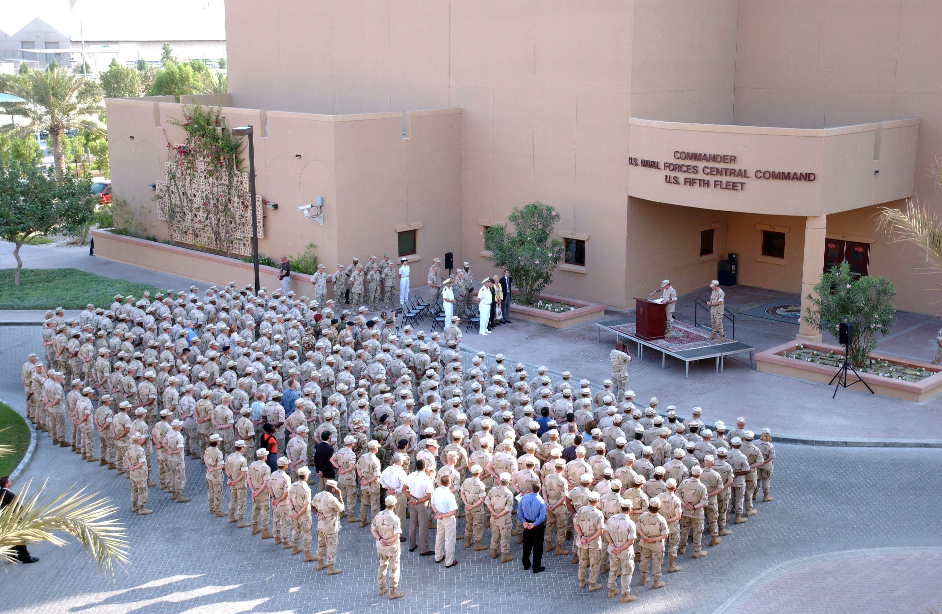 Bahrain (Nov. 3, 2005) - Vice Adm. David C. Nichols, Jr., addresses Sailors during the change of command of U.S. Naval Forces Central Command/5th Fleet to Vice Adm. Patrick M. Walsh at a ceremony outside 5th Fleet headquarters in Bahrain. During his tour, Nichols was charged with ensuring the security and stability of more than a 2.5 million square mile area that includes the Persian Gulf, Gulf of Oman, North Arabian Sea, parts of the Indian Ocean, Gulf of Aden and the Red Sea. U.S. Navy photo by Photographer’s Mate 2nd Class Carolla Bennett (RELEASED)